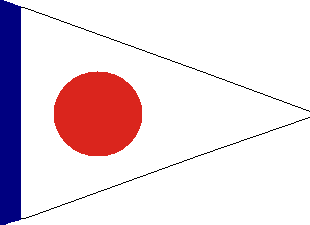 Union Army I Corps, 1st Division Badge, 2nd Brigade